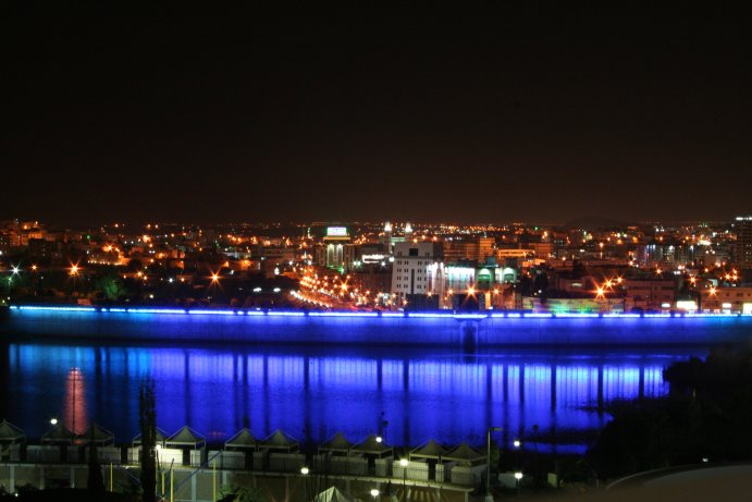 Abha from Abha Palace Hotel. Taken by BroadArrow in 2007.